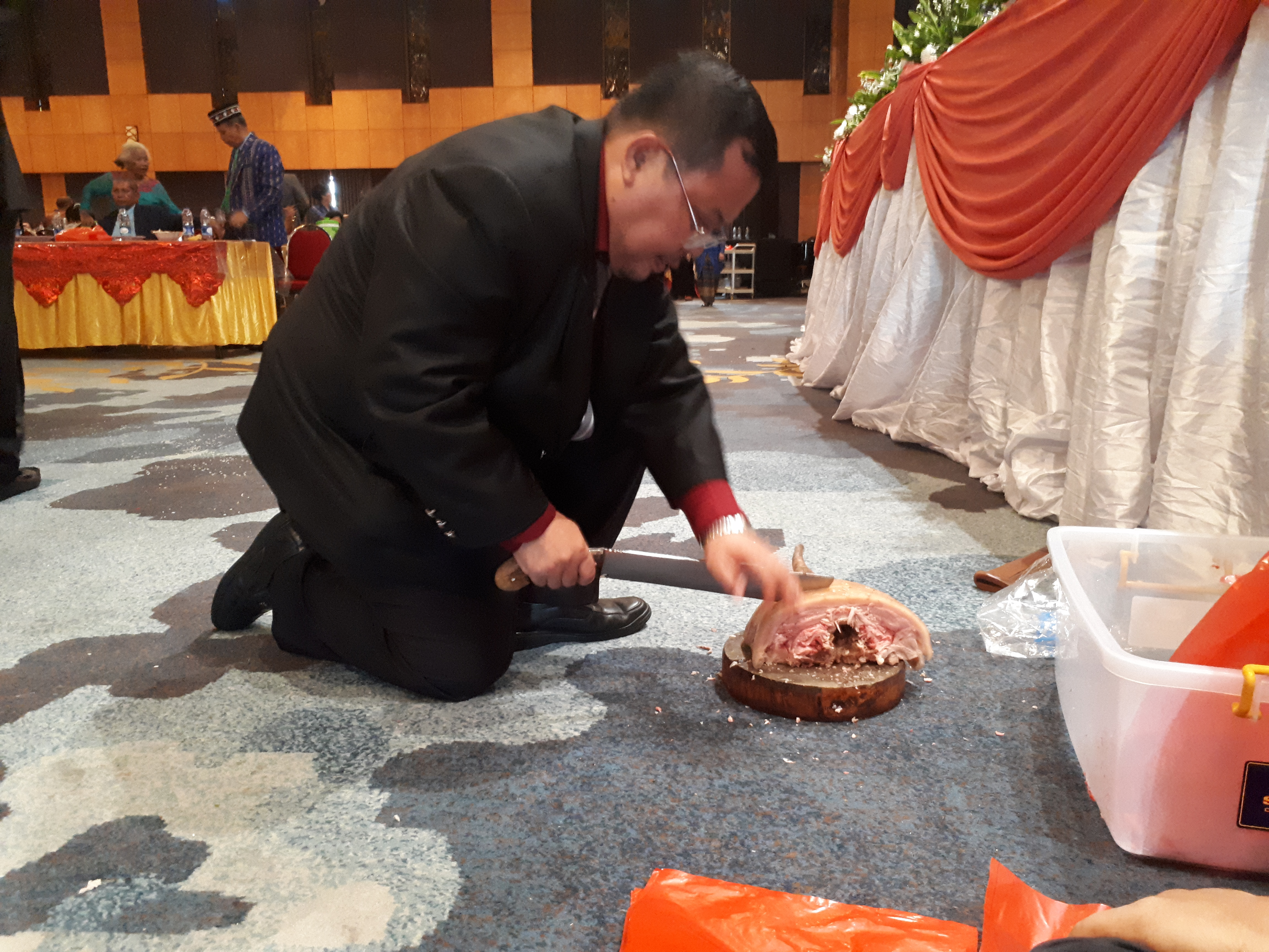 A traditional Batak wedding. The maradat event is in a more modern hall.